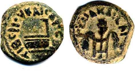 Bronze prutah minted by Pontius Pilate.Reverse: Greek letters TIBEPIOY KAICAPOC (Tiberius Emperor) and date LIS (year 16 = AD 29/30) surrounding simpulum (libation ladle).Obverse: Greek letters IOYLIA KAICAPOC (Julia, i.e. Livia, the Emperor's (mother)), three bound heads of barley, the outer two heads drooping. For black and white tracing, see File:C+B-Penny-Picture2-CoinOfPontiusPilate.PNG